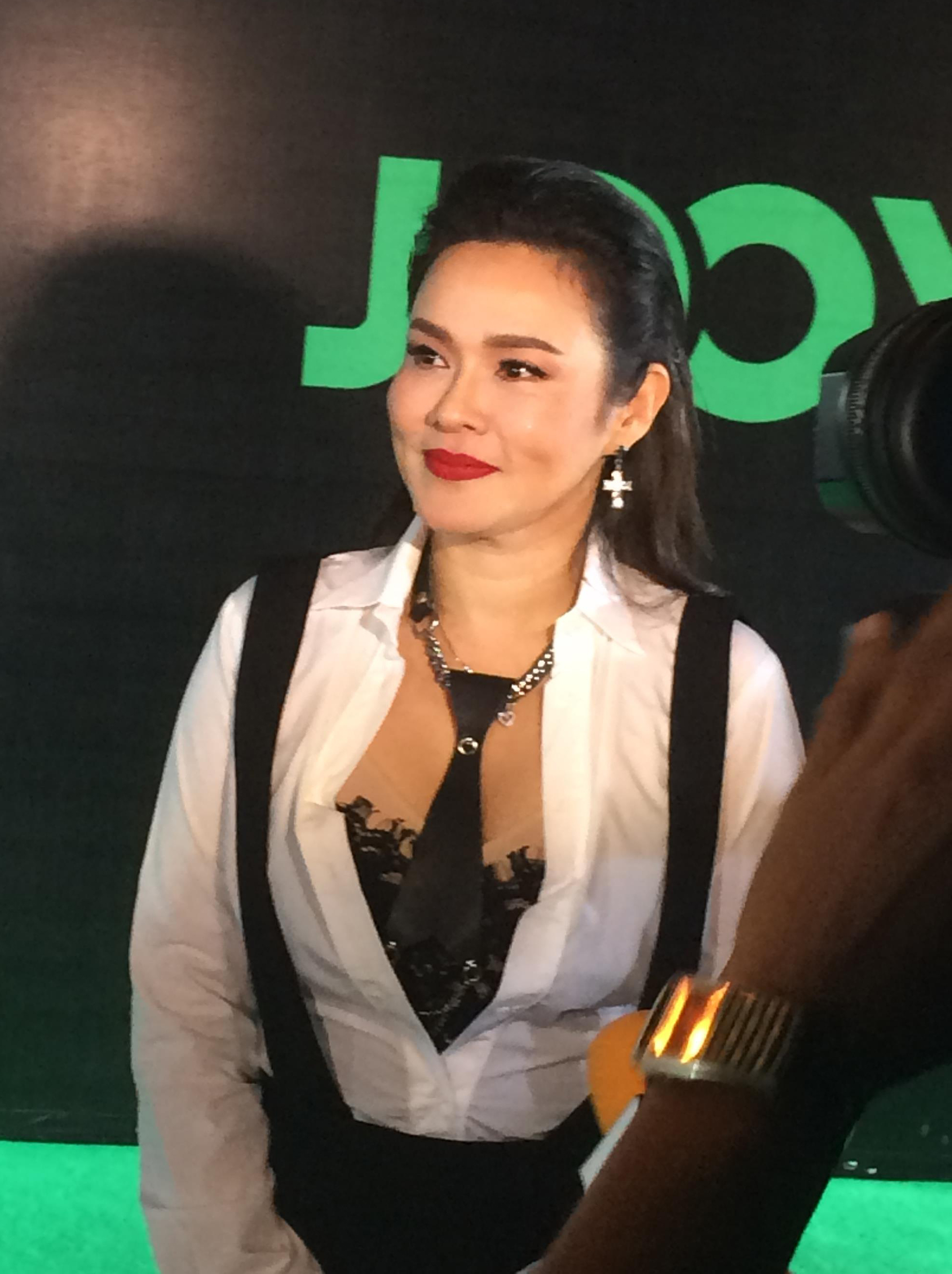 Mai at Joox Music Awards 2017